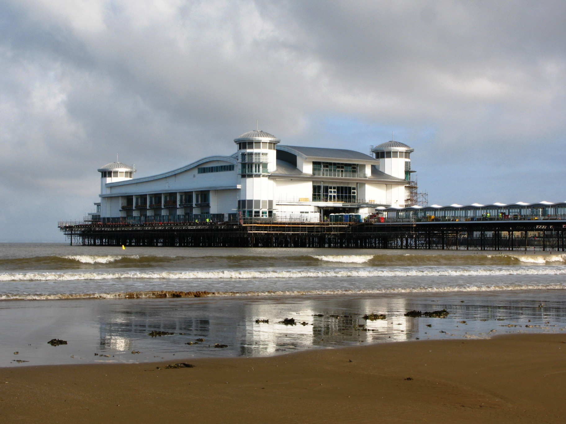 The Grand Pier, Weston-super-Mare, North Somerset, England. The pavillion burnt down in 2008; this view shows work on its replacement nearly complete less than two years later.